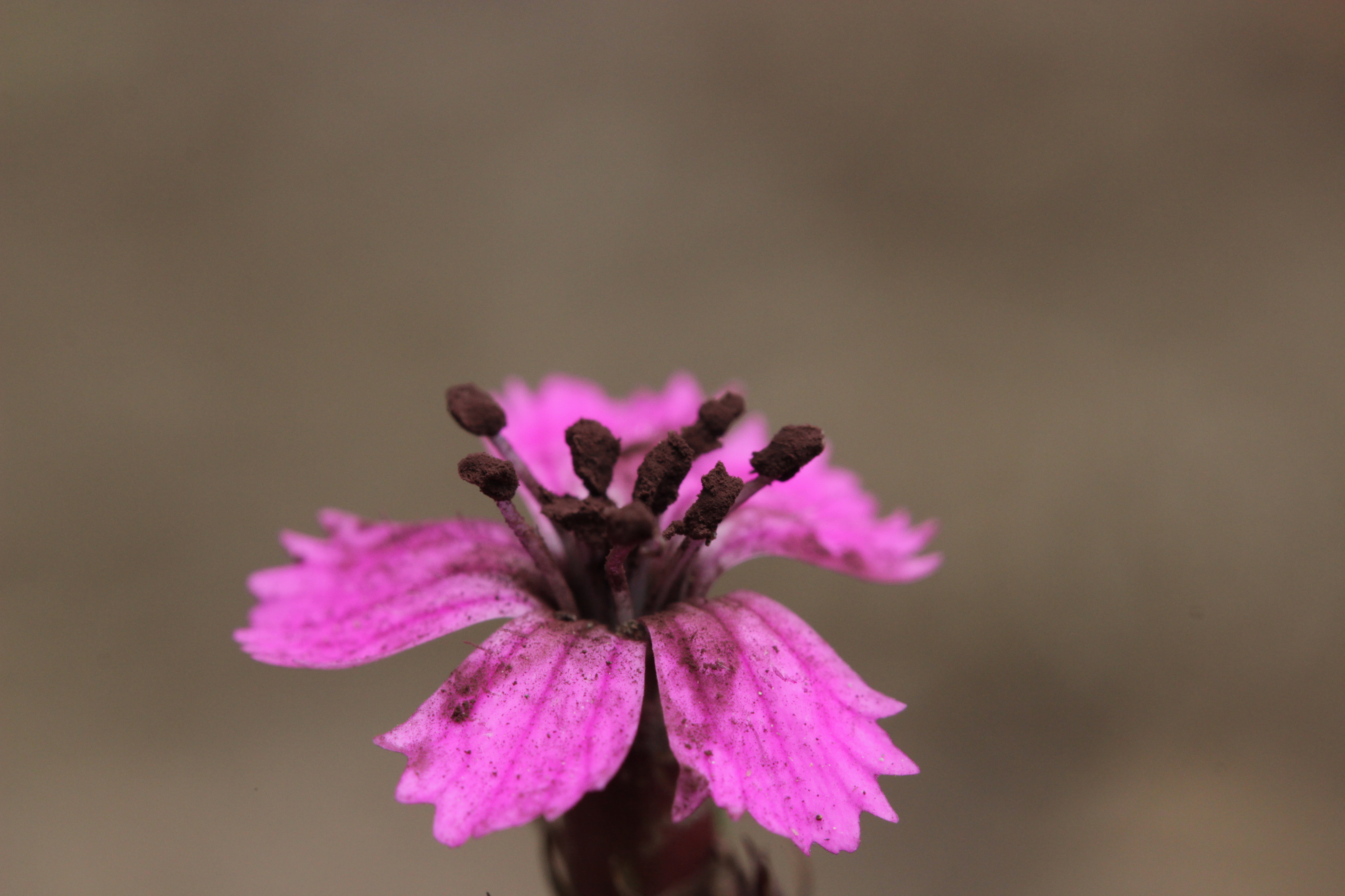 Microbotryum dianthorum s.l. ex Dianthus sp.